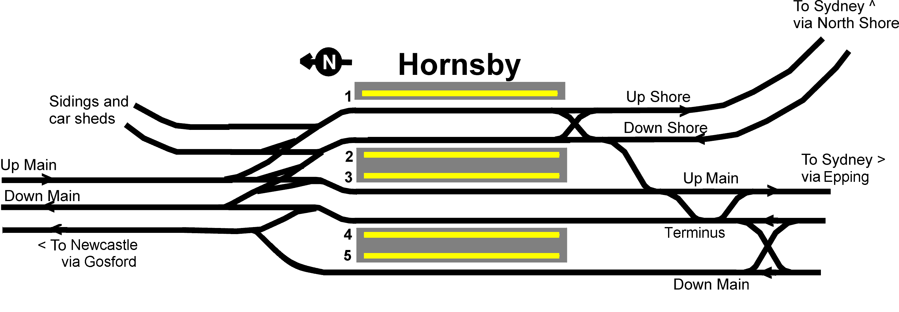 Current track layout at Hornsby railway station, Sydney